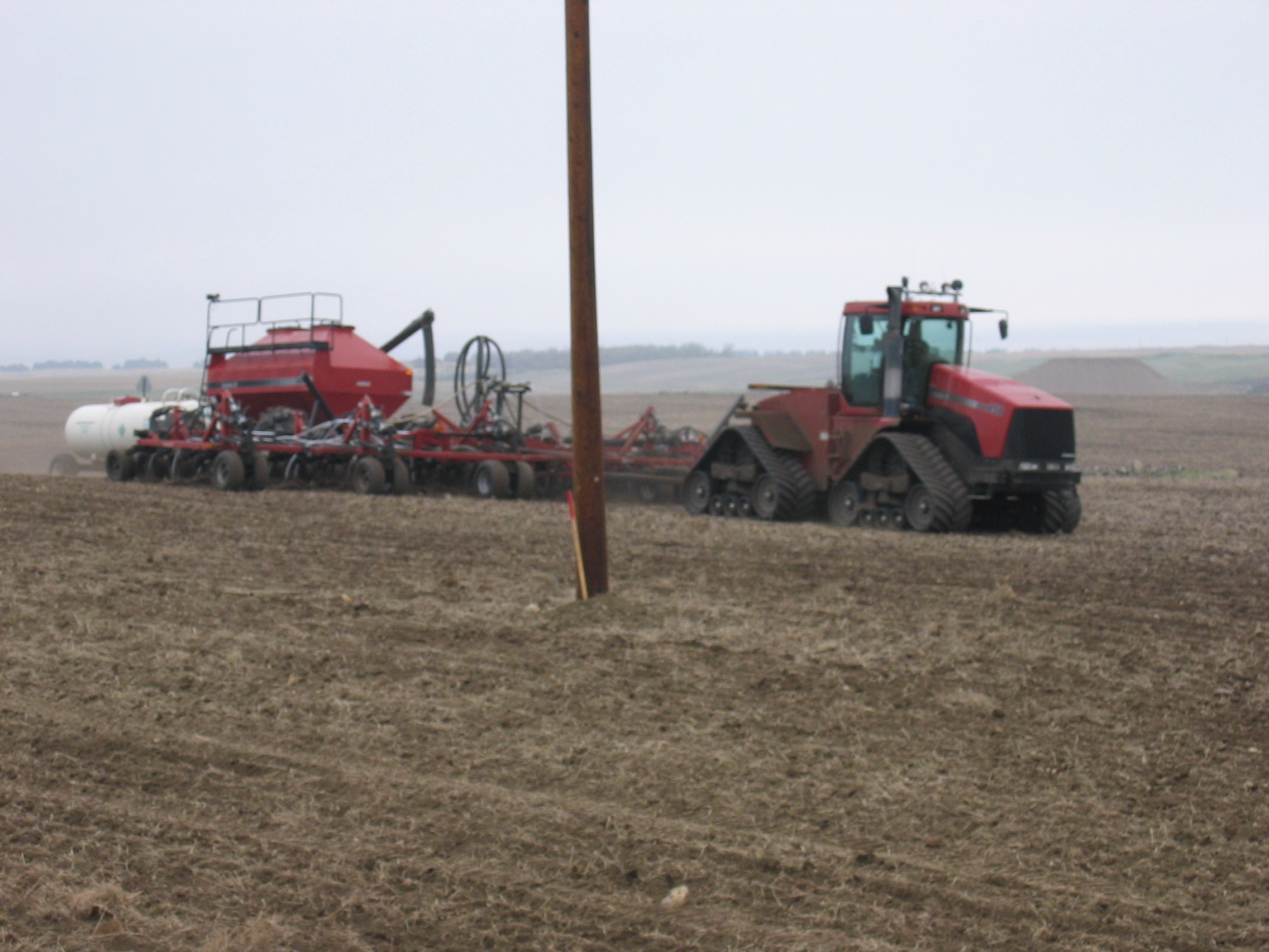 A modern steerable all-tracked power unit planting wheat (Case STX Steiger tractor with Case IH seed drill combination) in western North Dakota, USA